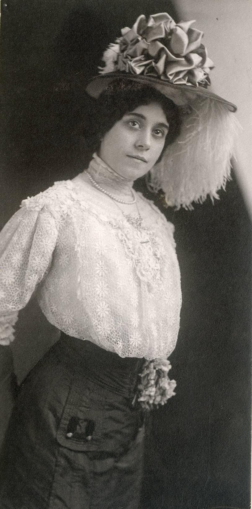 Tarquinia Targuini, Italian dramatic soprano Subjects: singers